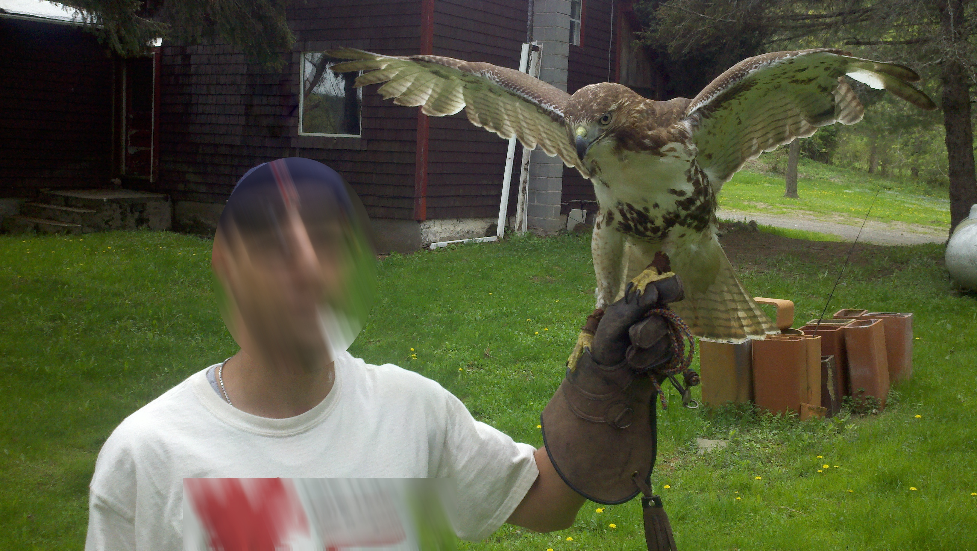 Juvenile Red-tailed Hawk